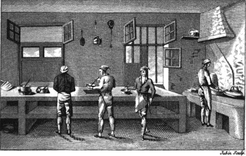 Title page of the Art du Cuisinier by Antoine Beauvilliers (1754-1817)